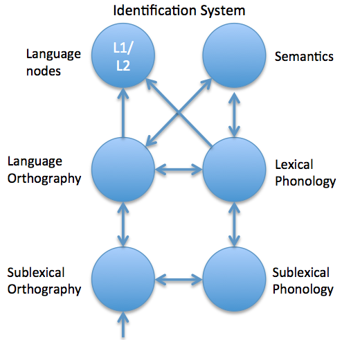 Diagram of the BIA+ Model